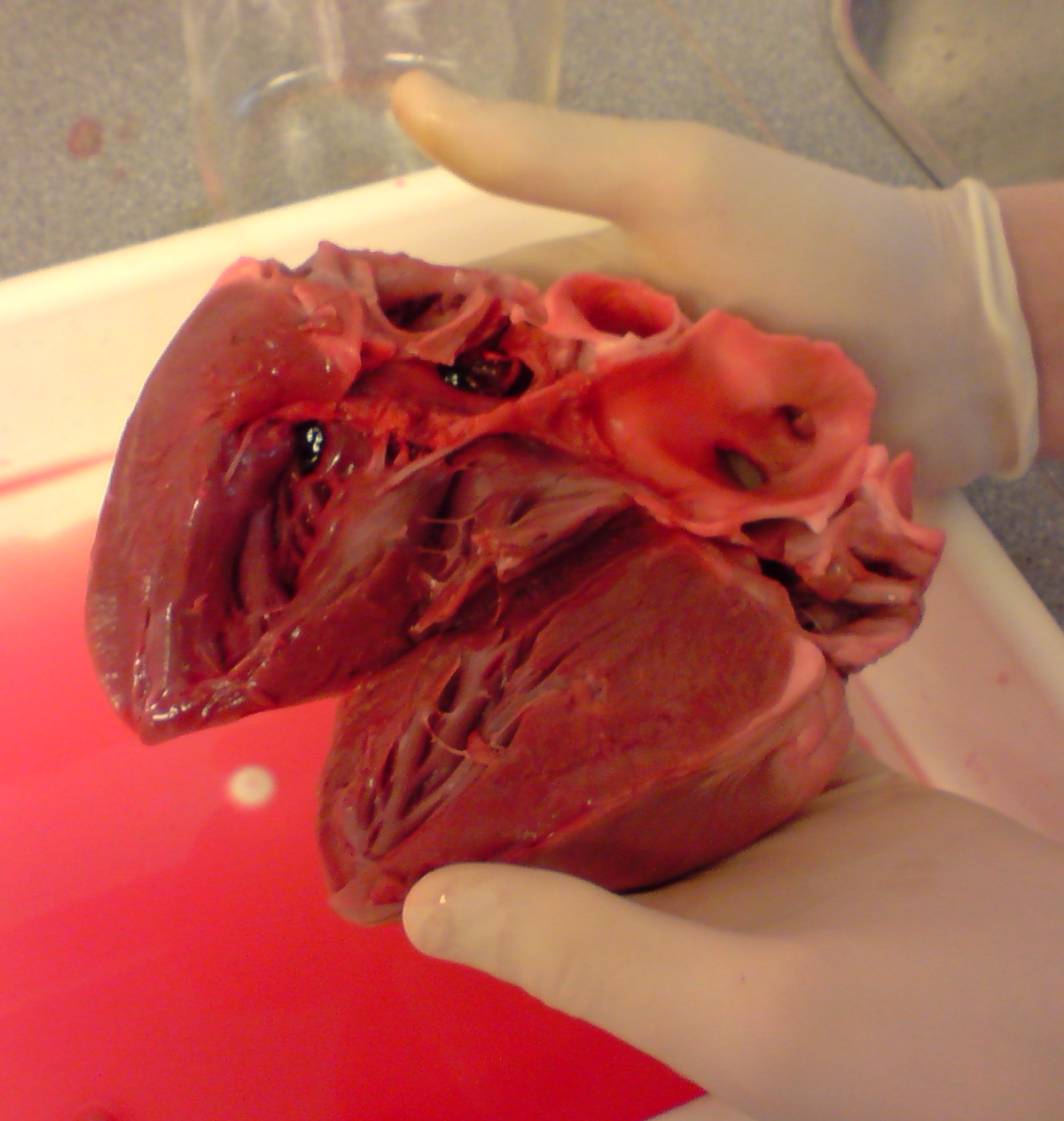 A dissected pig heart.